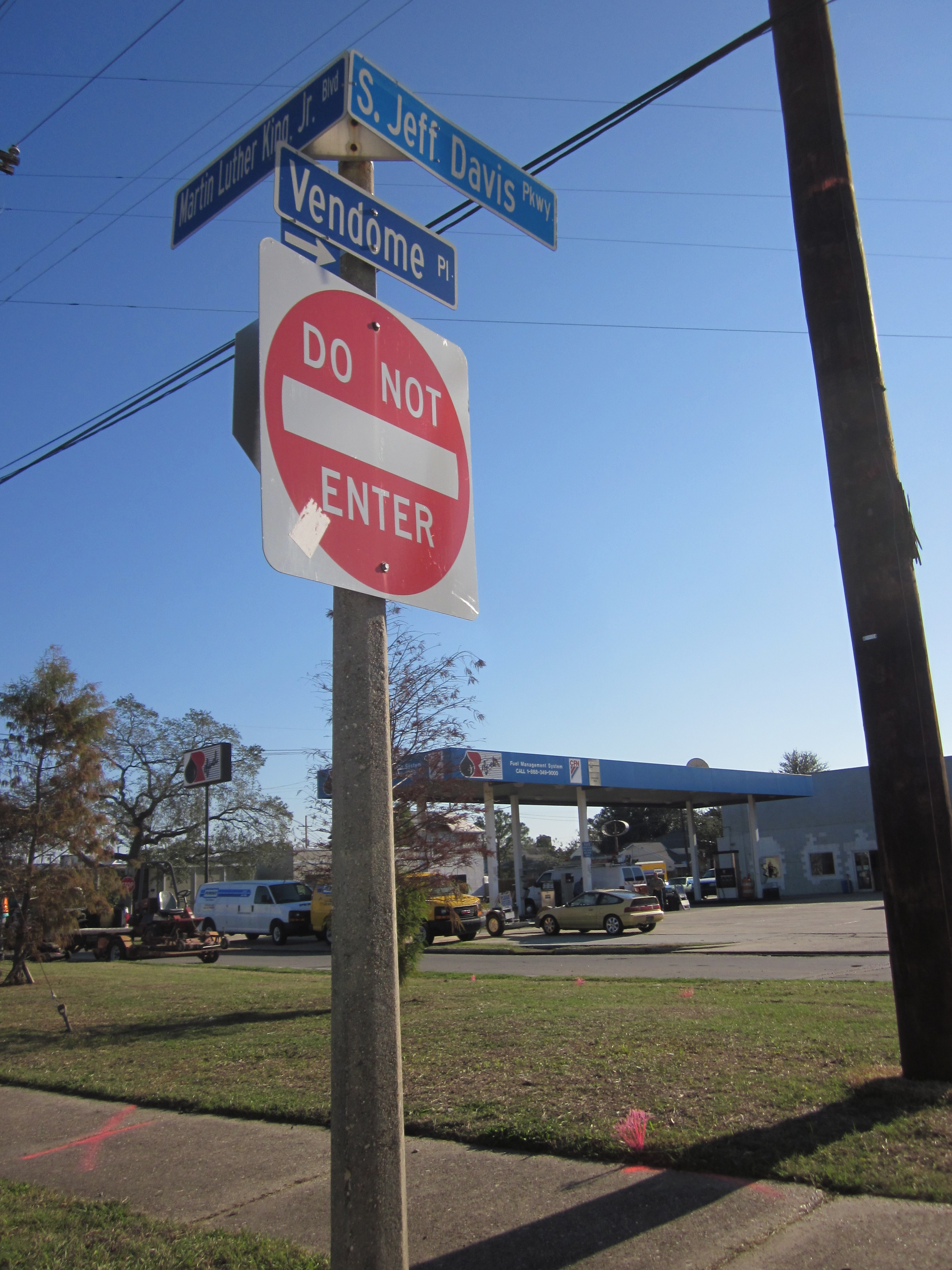 New Orleans: Intersection of streets named after Martin Luther King Jr. (African American civil rights leader) and after Jefferson Davis (pro-slavery Confederate leader).